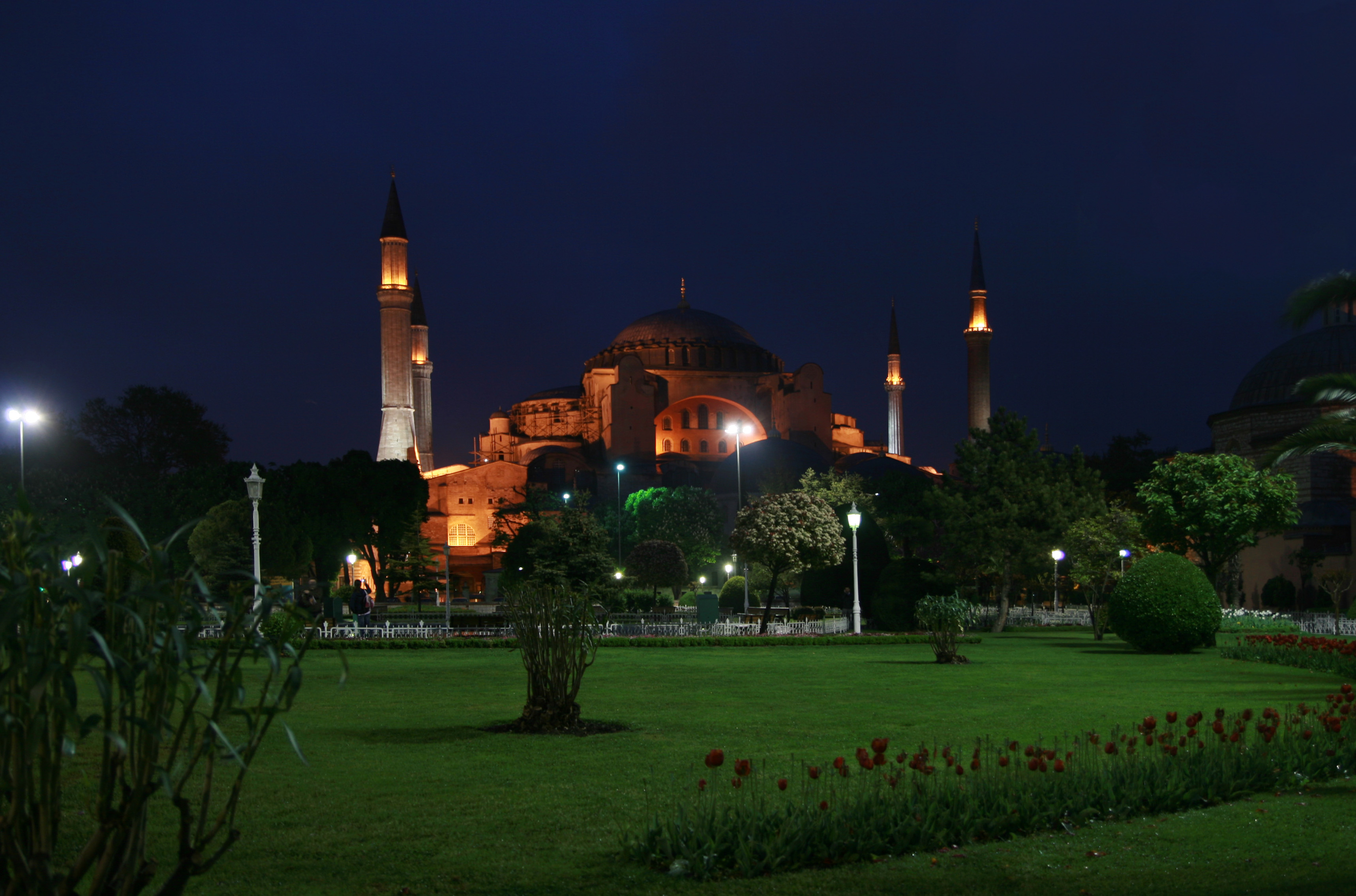 Hagia Sophia by night